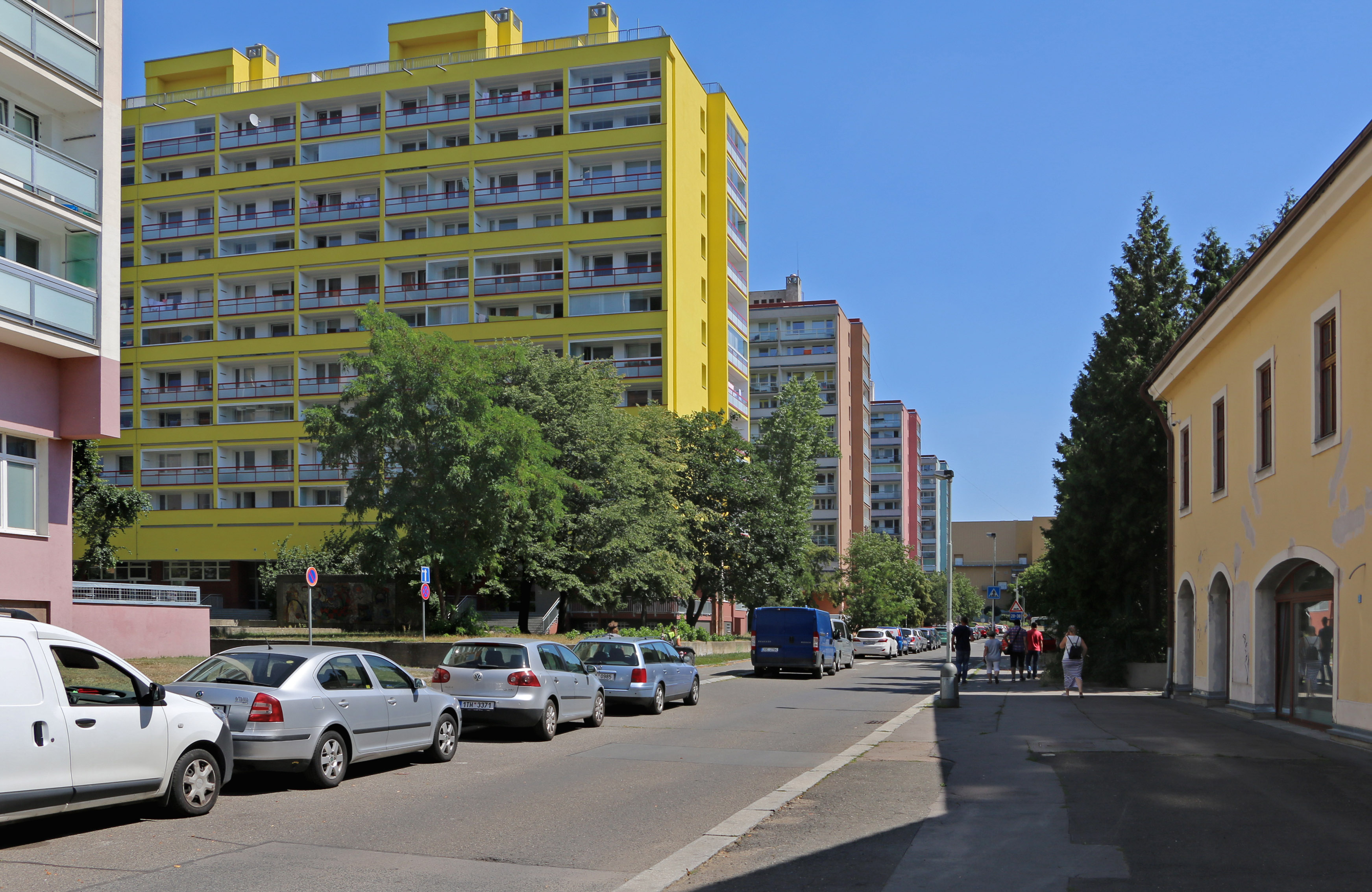 West part of Magnitogorská street, Prague.